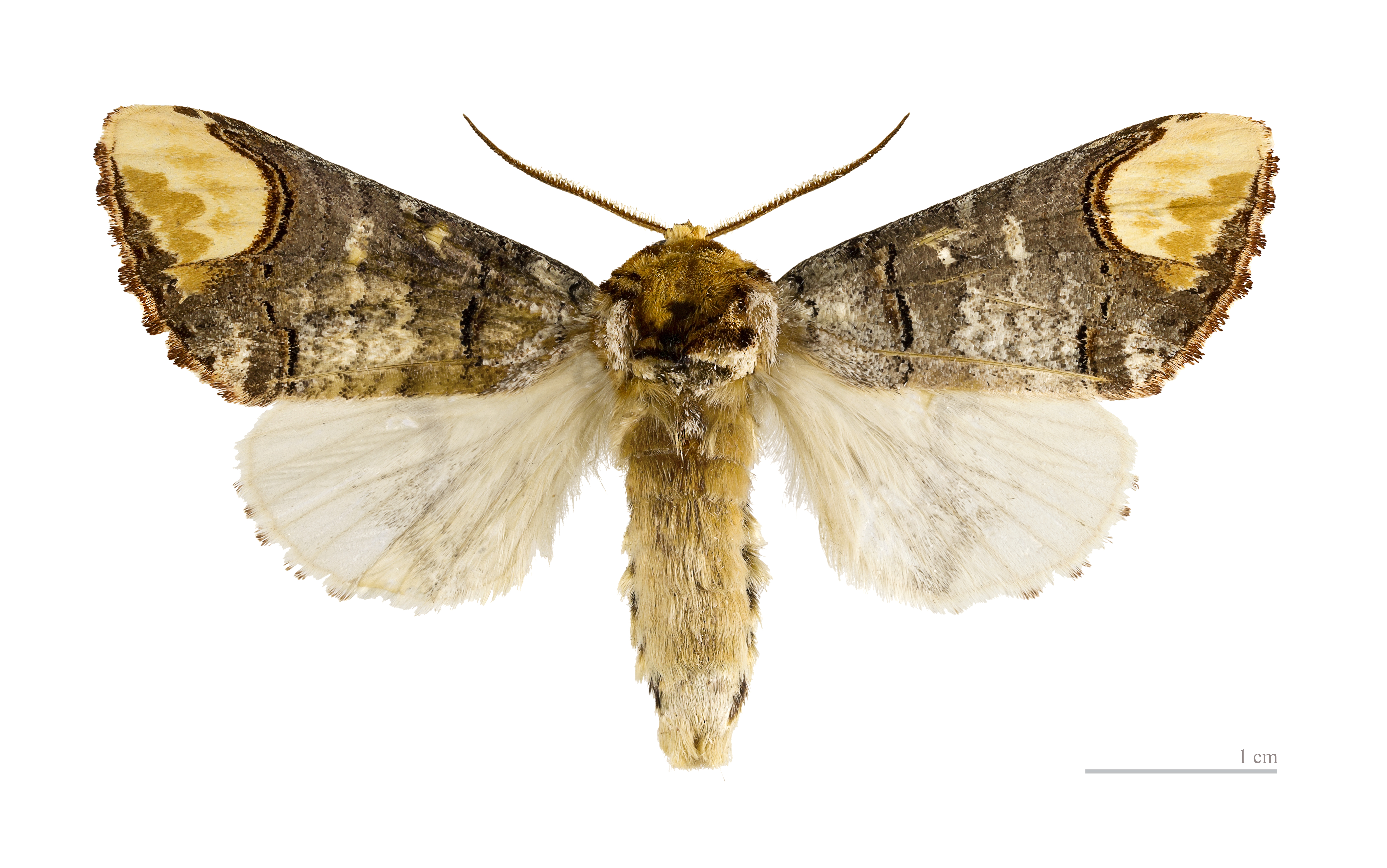 Buff-tip - ♂ - Dorsal side Locality: Carbonnel, Rieux-de-Pelleport, Ariège, France